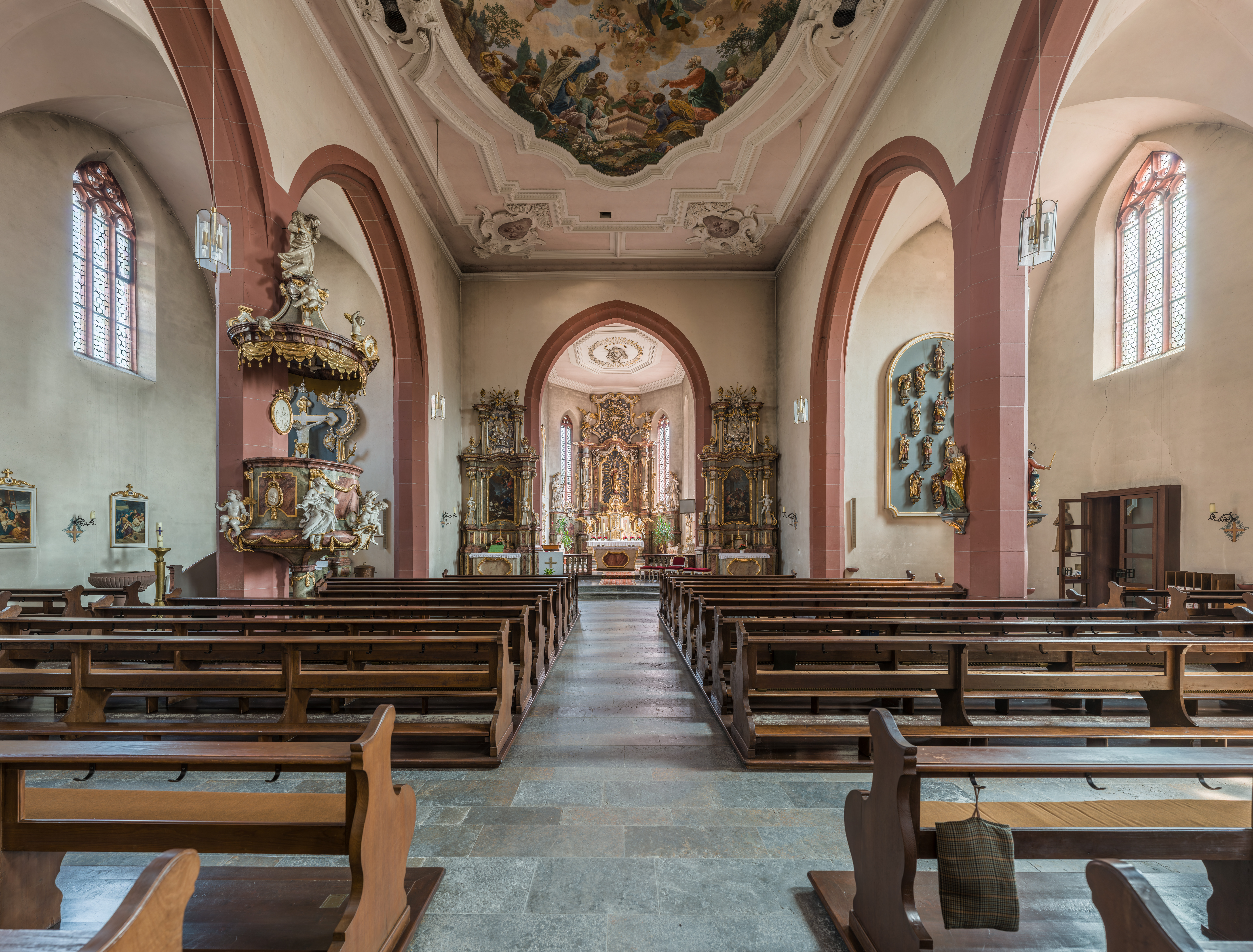 A view of the nave of Mariä Geburt, HöchbergThis is a photograph of an architectural monument.